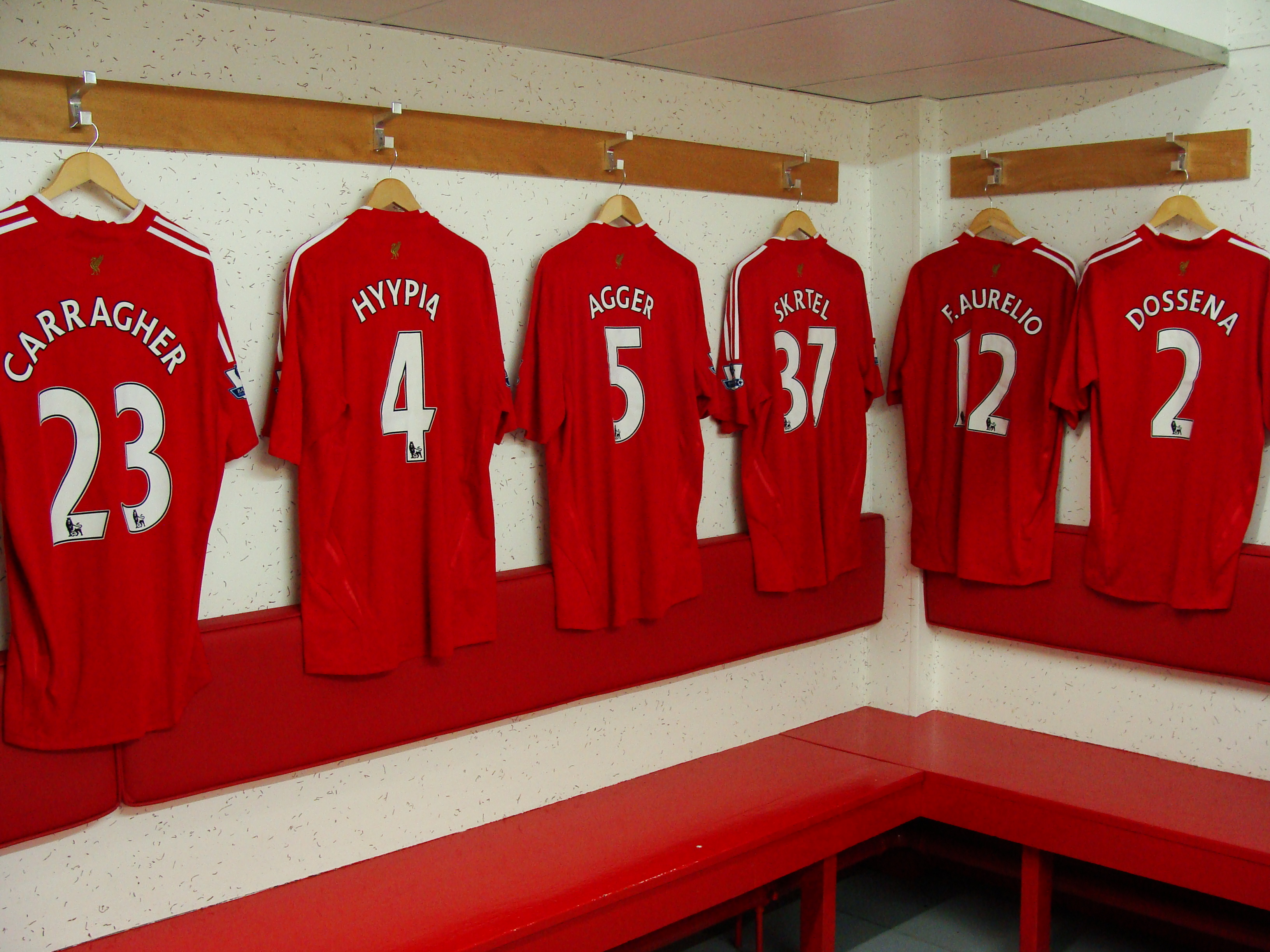 The Anfield dressing room, home of Liverpool FC, and the shirts of Jamie Carragher, Sami Hyypia, Daniel Agger, Martin Skrtel, Fabio Aurelio and Andrea Dossena